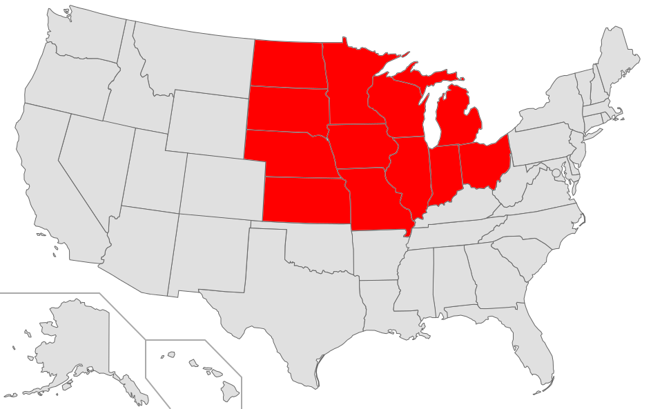 Map of United States created by Wapcaplet